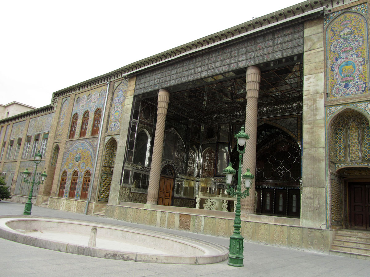 Marble Throne Terrace